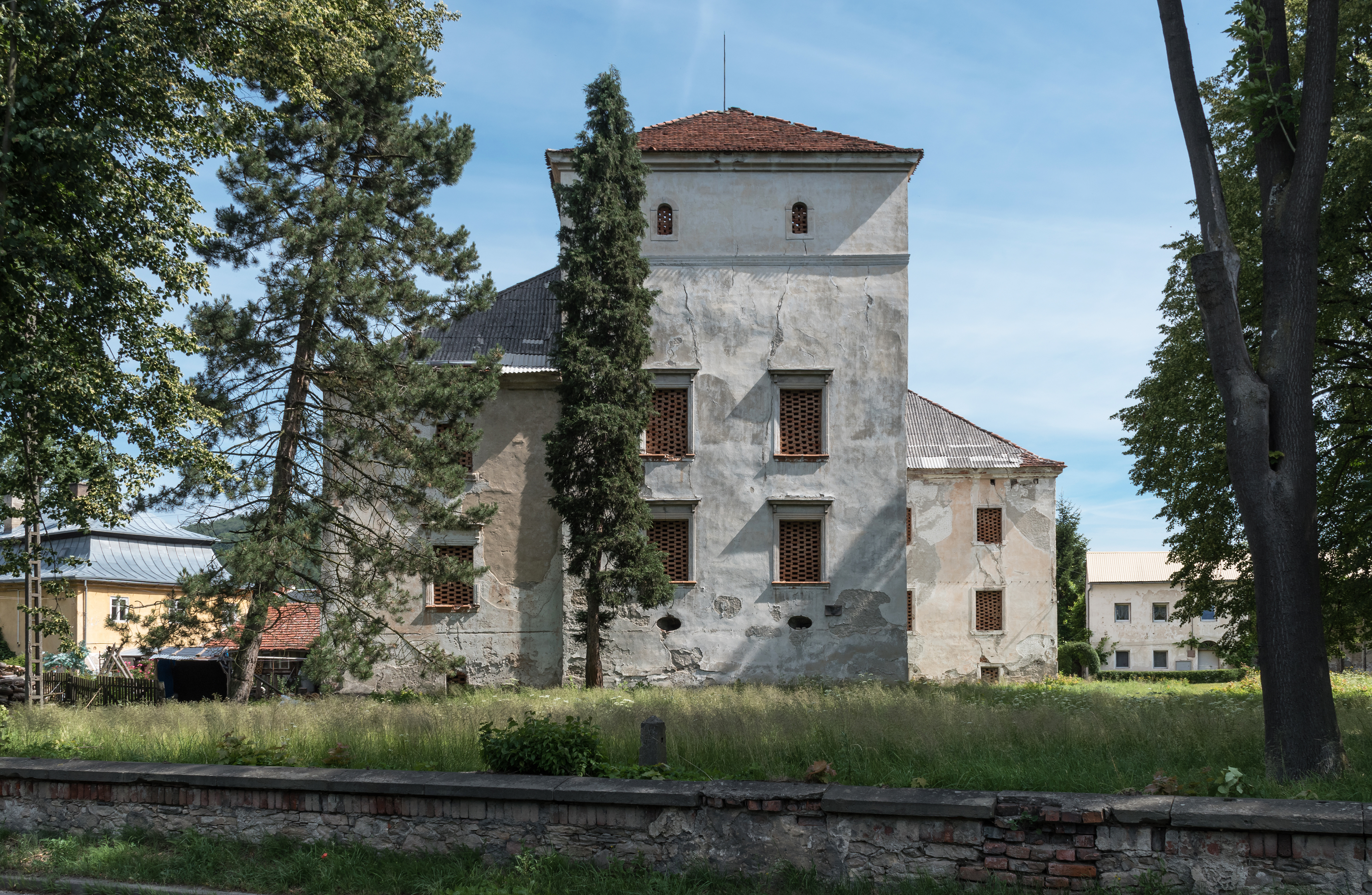 Magnis palace in Ołdrzychowice Kłodzkie